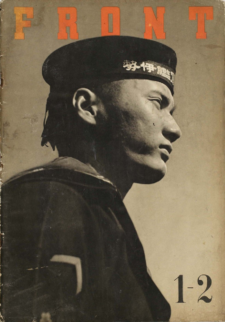 Front magazine, a combined 1-2 issues.